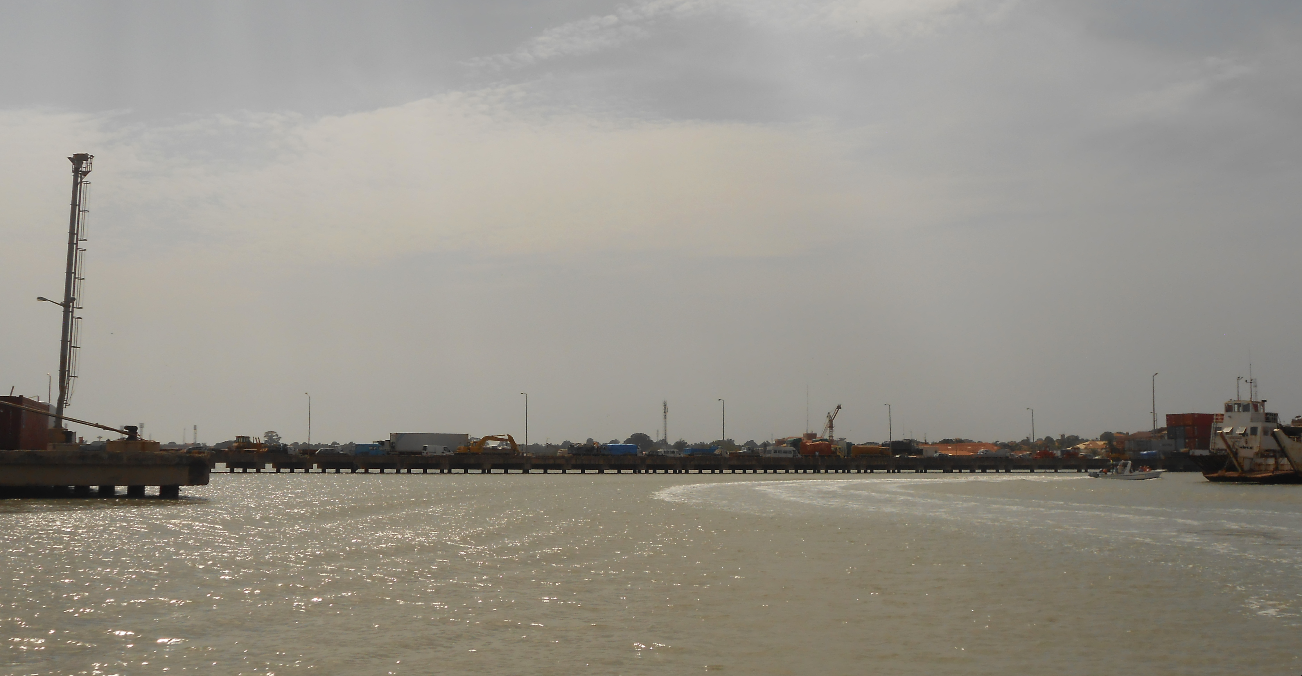 Entering the port of Bissau.